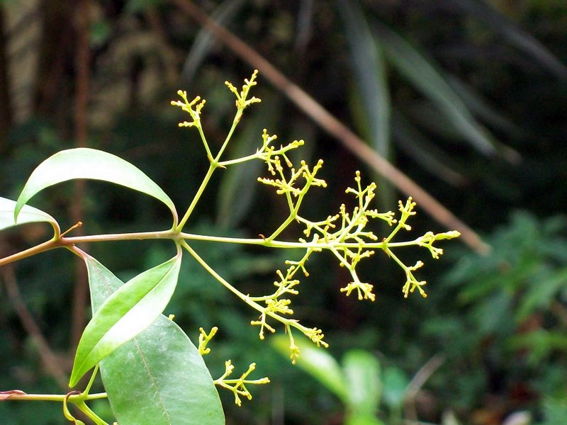 Blue Cherry flower panicle, Cabarita Beach, northern NSW